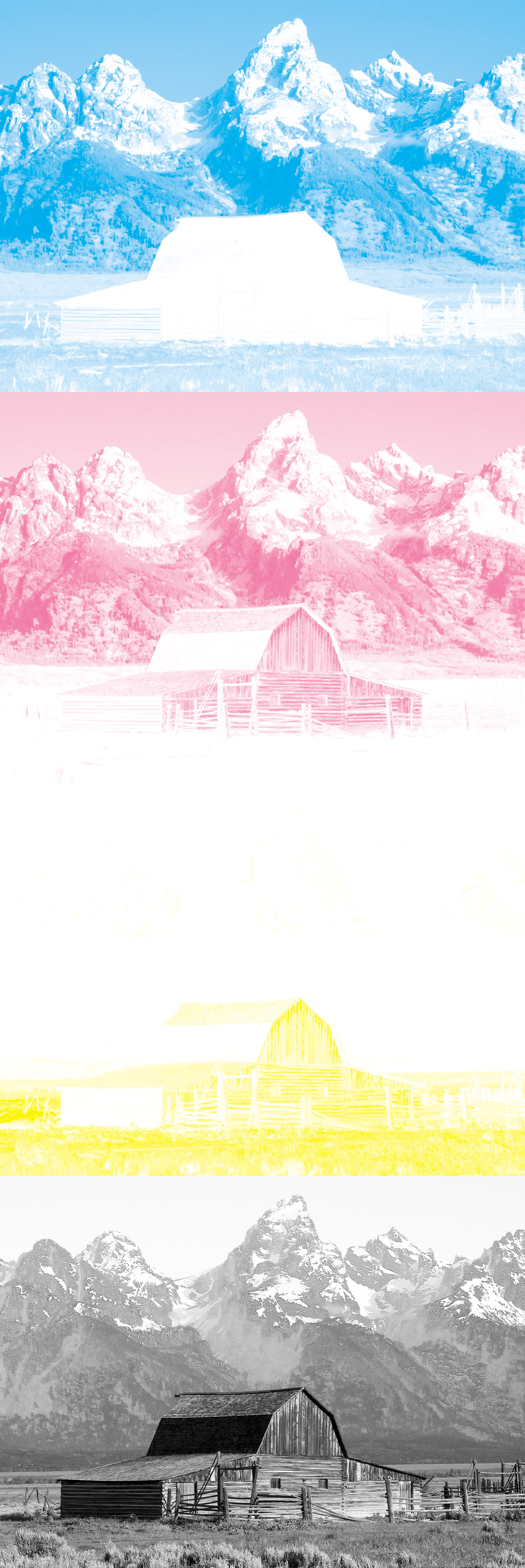 A GCR four-color separation of File:Barns grand tetons.jpg, assuming SWOP uncoated inks at 25% dot gain, with maximum black, created in Adobe Photoshop by Jacob Rus, 2008-09-02.